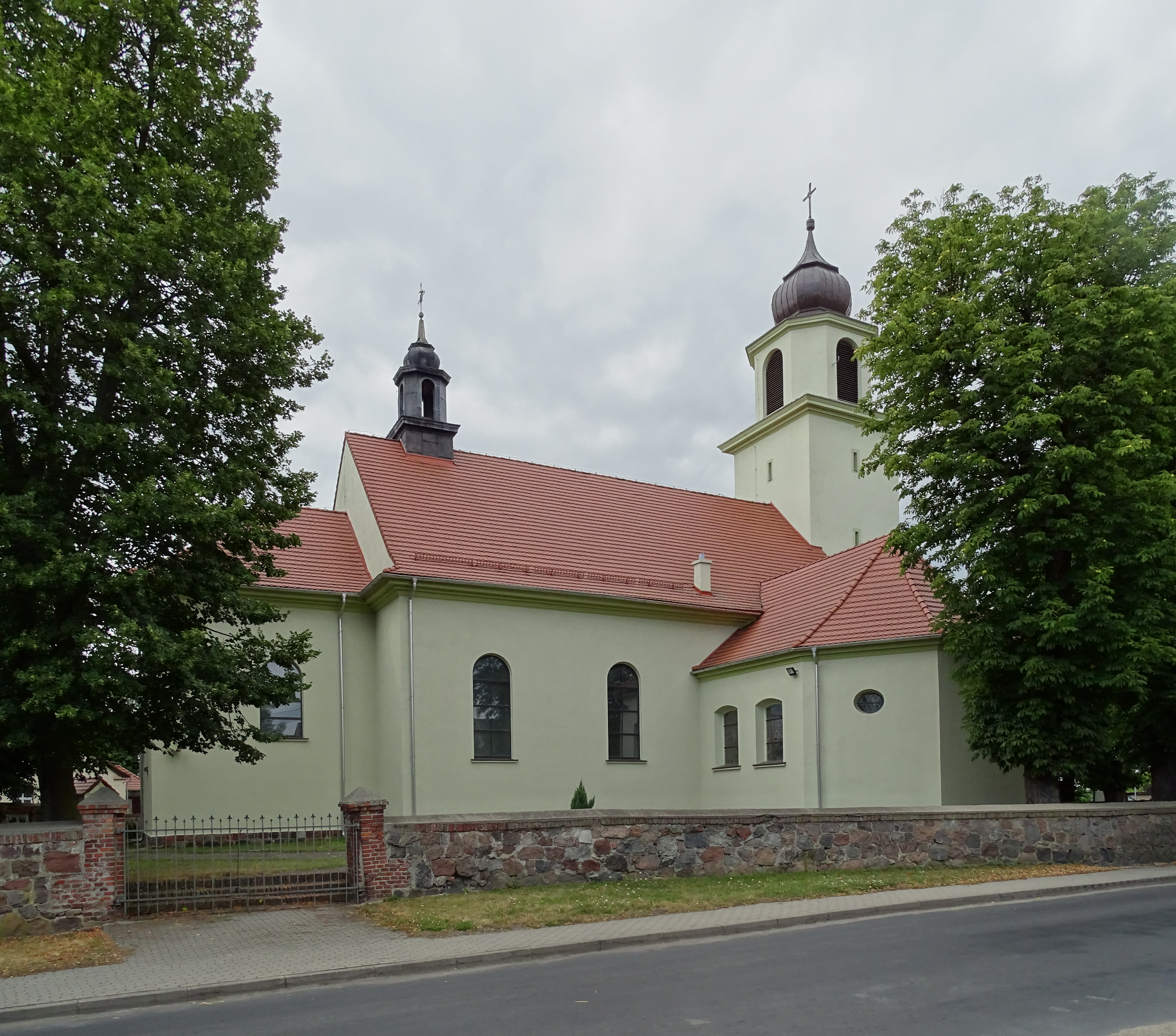 Dębowo, Nakło county, Poland. Church of Saint Michael from 1806.